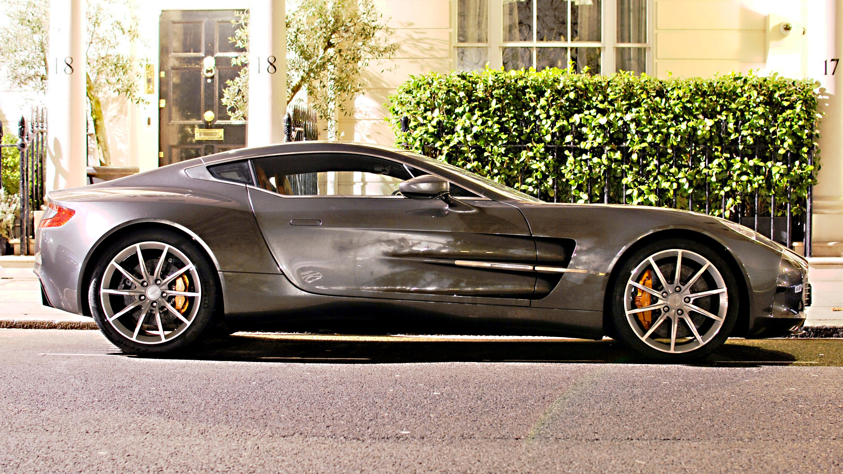 Aston Martin One-77, pictured in London.